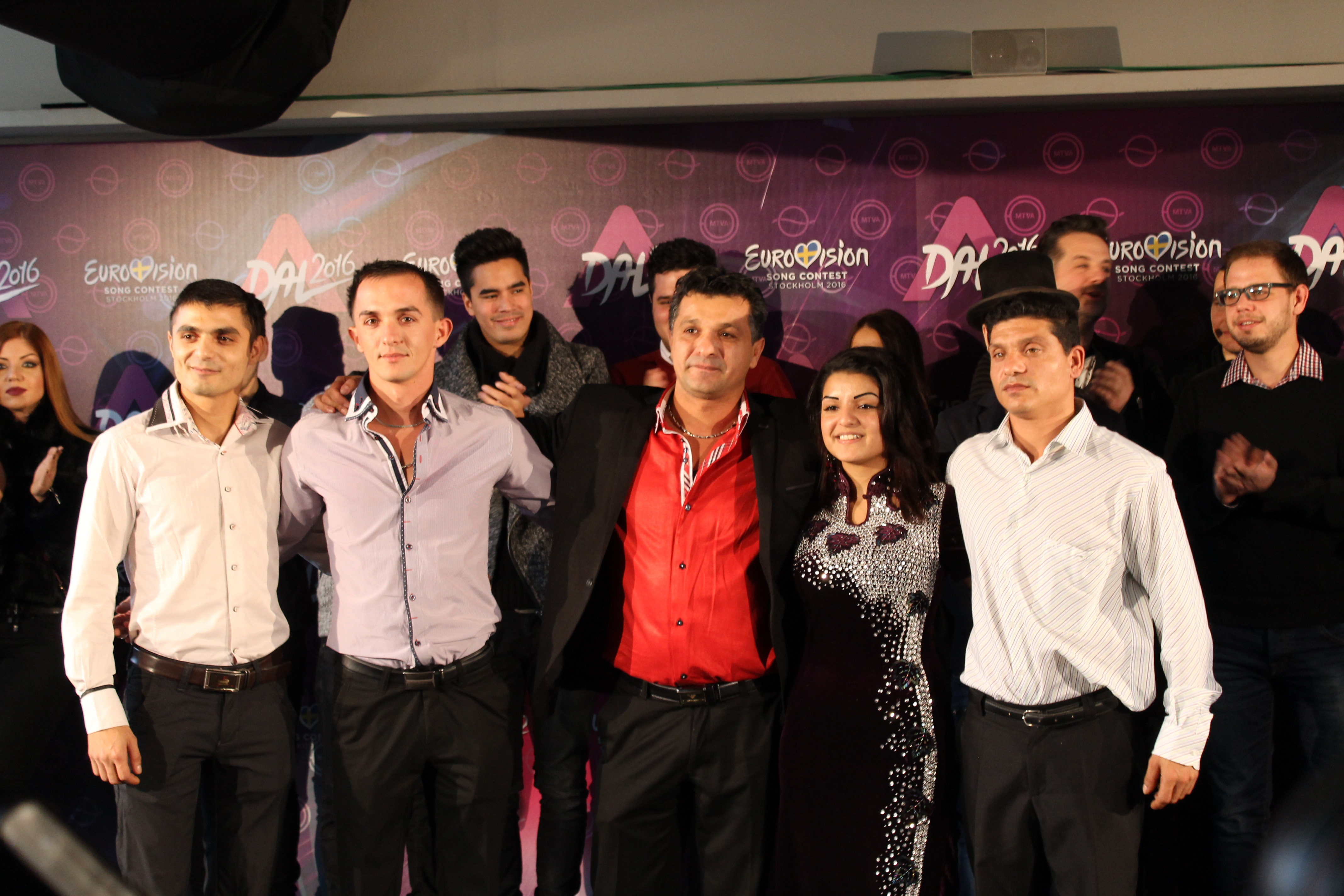 A Dal 2016 participant: Parno Graszt